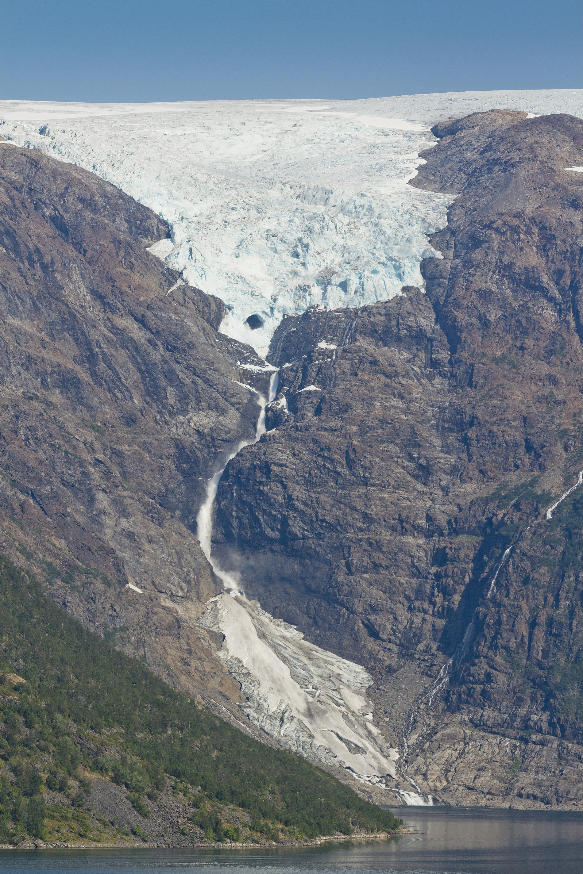 Isfjordjøkelen (a part of Øksfjordjøkelen) in Kvænangen as seen from Varberget, Saltnes, Troms, Norway in 2014 August. The fjord below is Isfjorden.